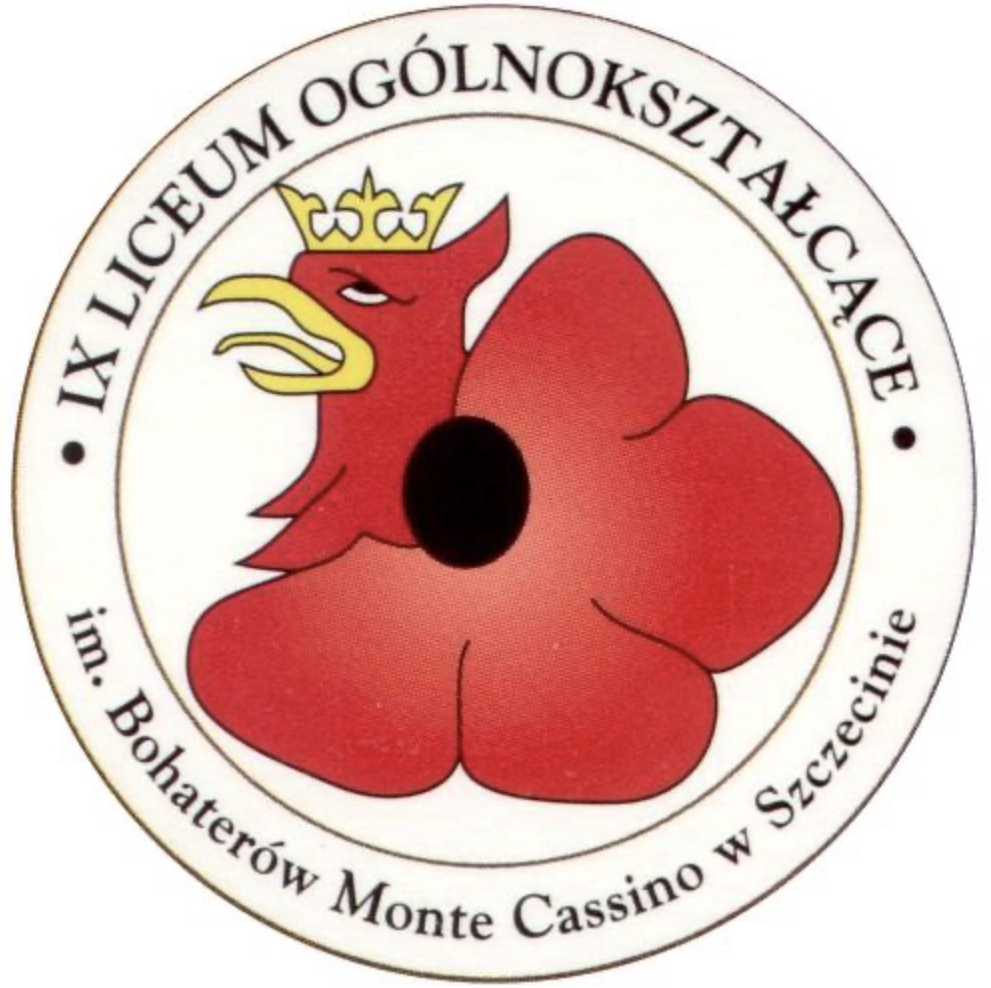 Logo Lo9